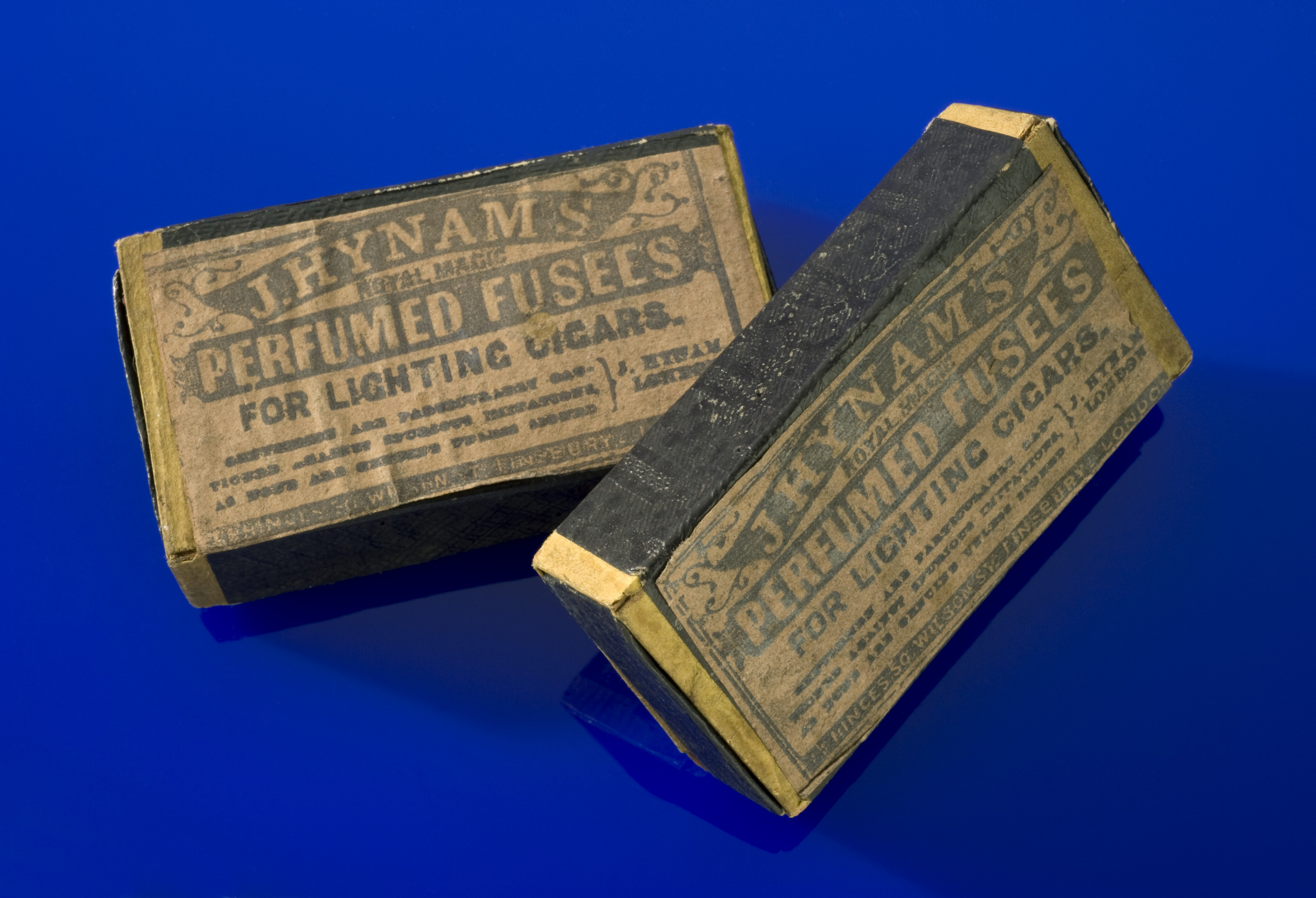 A fusee is a large headed match (supposedly capable of staying lit in wind and rain) that was commonly used to light cigars and pipes. Fusees were first patented in 1832 and found a ready market due to the growing popularity of pipe and cigar smoking. These examples, made by J Hynam in London, were perfumed and advertised as being “magic”. maker: Hynam, J. Place made: London, Greater London, England, United Kingdom Wellcome Images Keywords: Smoking; match box